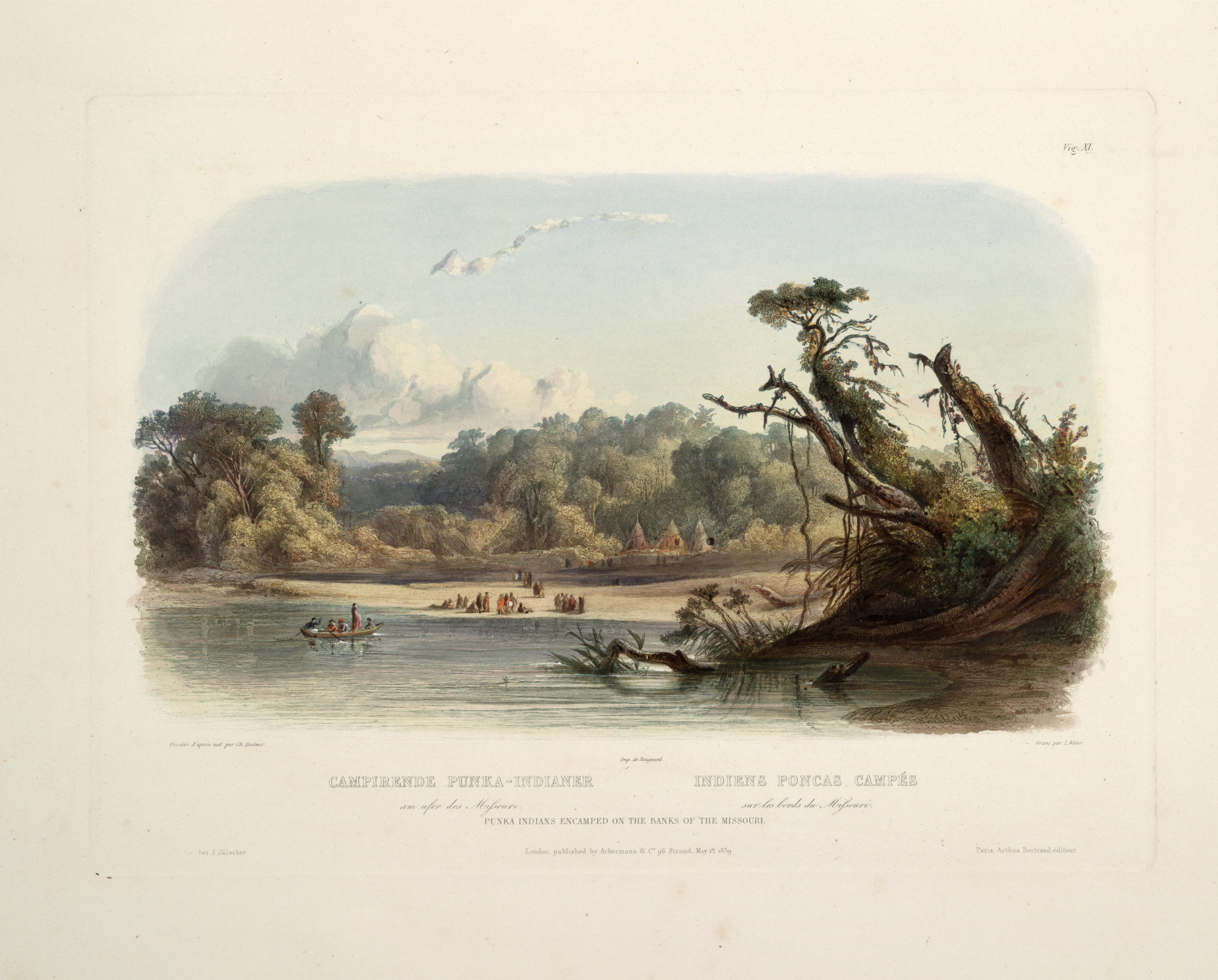 Punca or Ponca indians encamped on the banks of the Missouri